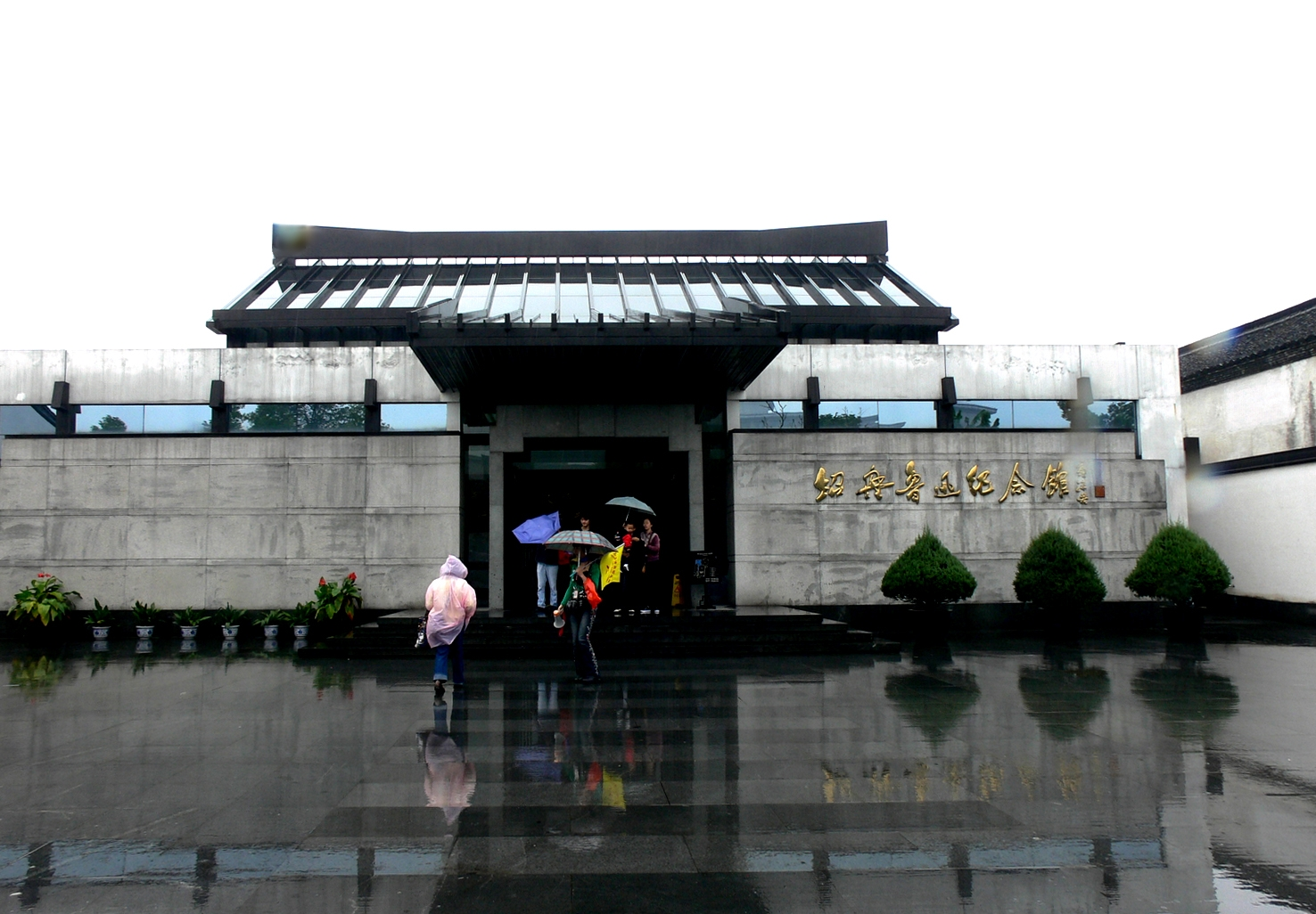 Luxum Museum in Shaoxing